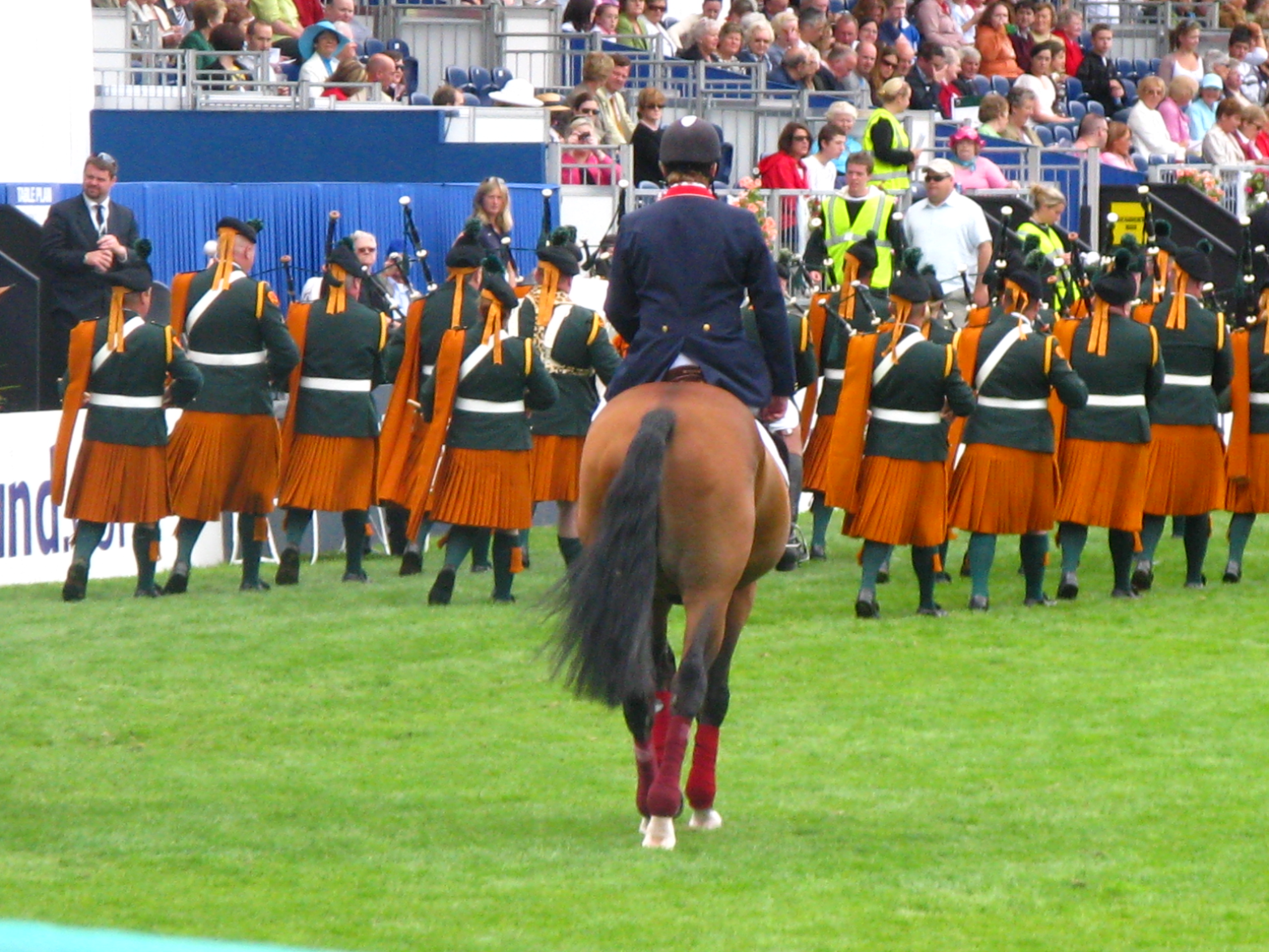 Nick Skelton & Arko III - Dublin CSIO5* - Samsung Aga Khan Nations Cup, Ireland